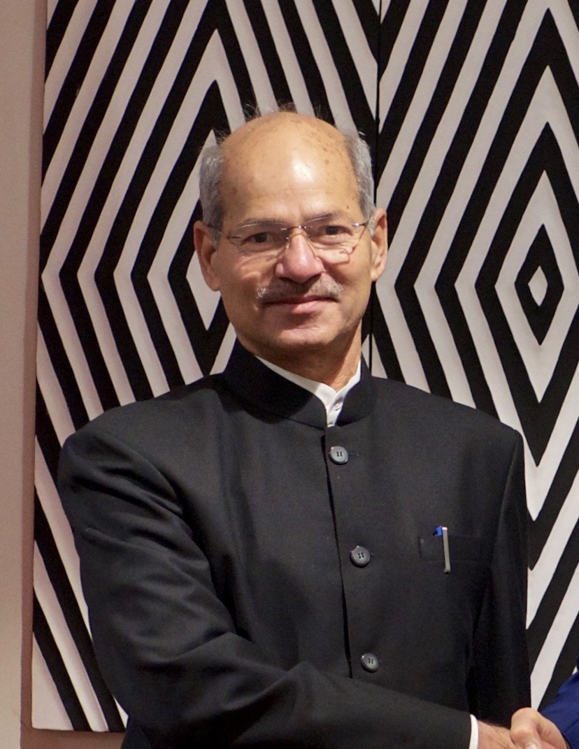 U.S. Secretary of State John Kerry, joined by U.S. Environmental Protection Agency Administrator Gina McCarthy, shakes hands with Indian Environment Minister Anil Dave before a bilateral meeting at the Radisson Blu Hotel in Kigali, Rwanda, on October 14, 2016, amid negotiations about amending the Montreal ozone layer protection protocol. [State Department photo/ Public Domain]